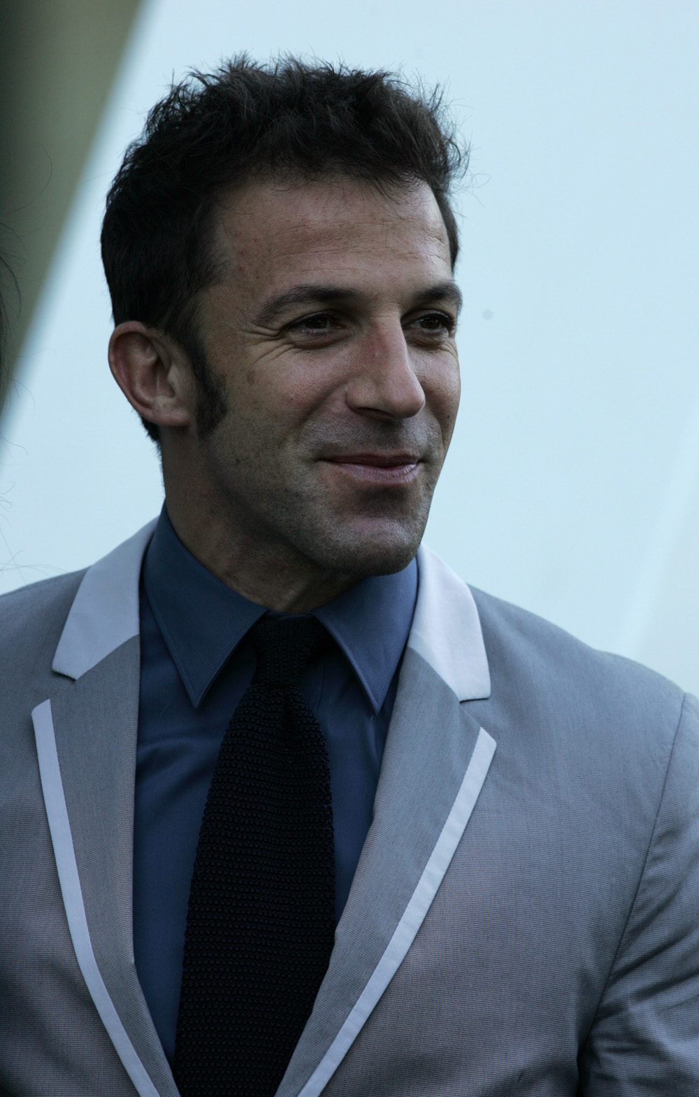 Aria Awards 2013 in Sydney Australia